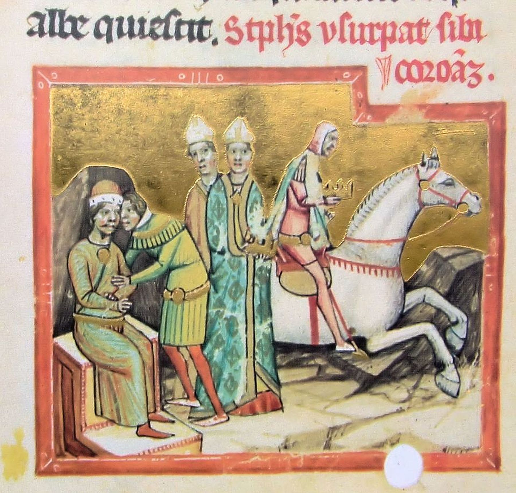 “The Robbing of the Crown Jewel”